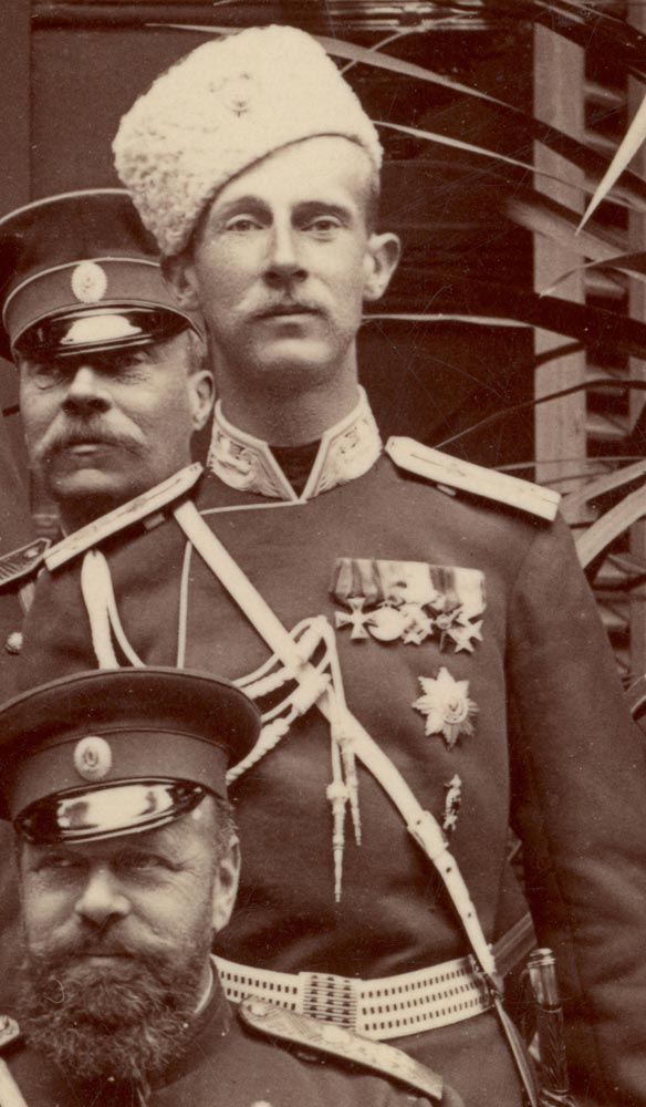 Grand Duke Dimitri Konstantinovich of Russia